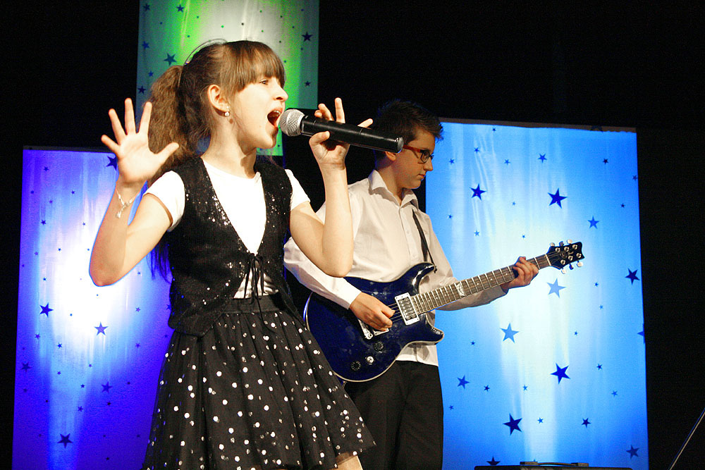 Koncert finałowy 21 Konkursu Piosenki „Wygraj Sukces” (Tarnobrzeg 11.06.2016).